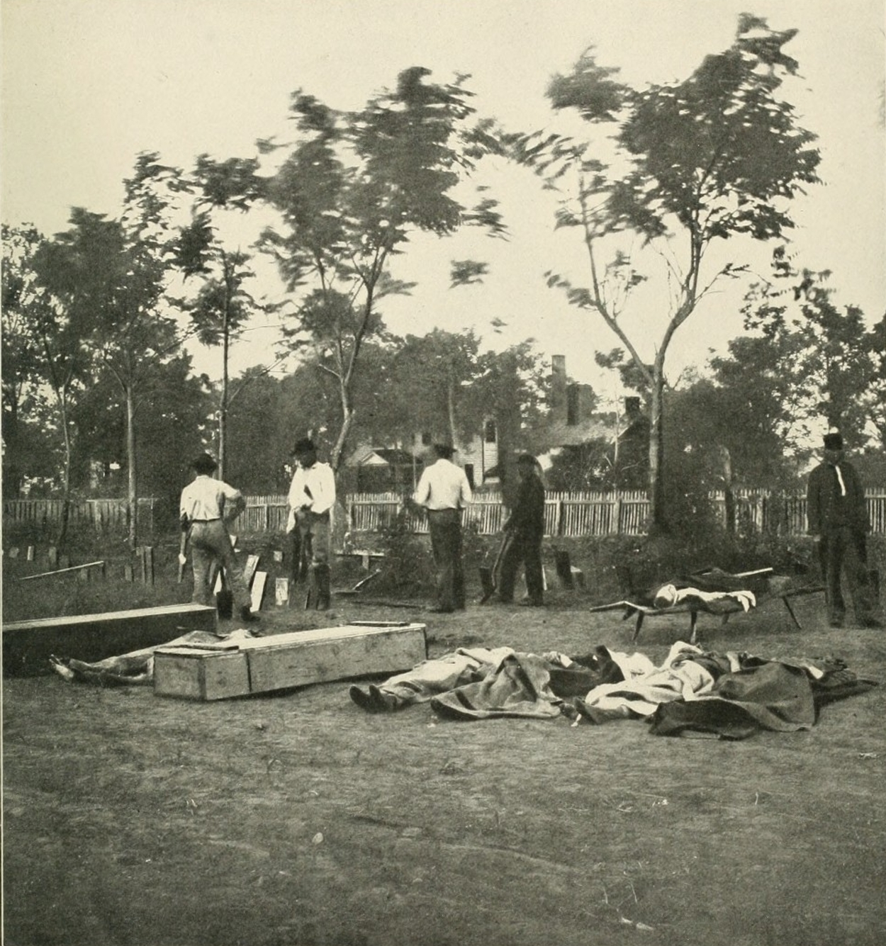 Union dead from the Battle of the Wilderness and the Battle of Spotsylvania being buried at Fredericksburg.